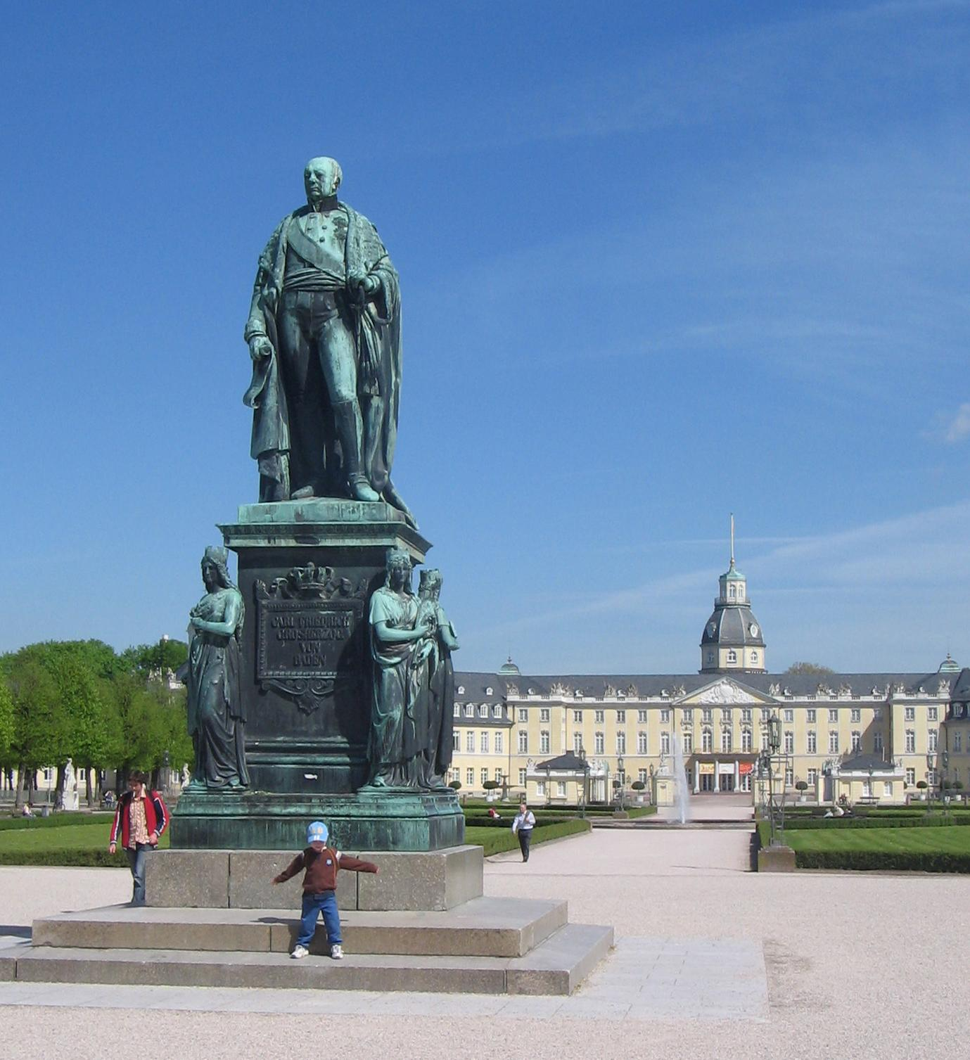 Statue of Karl Friedrich of Baden in front of the castle in Karlsruhe, Germany. sculptor: Ludwig Schwanthaler